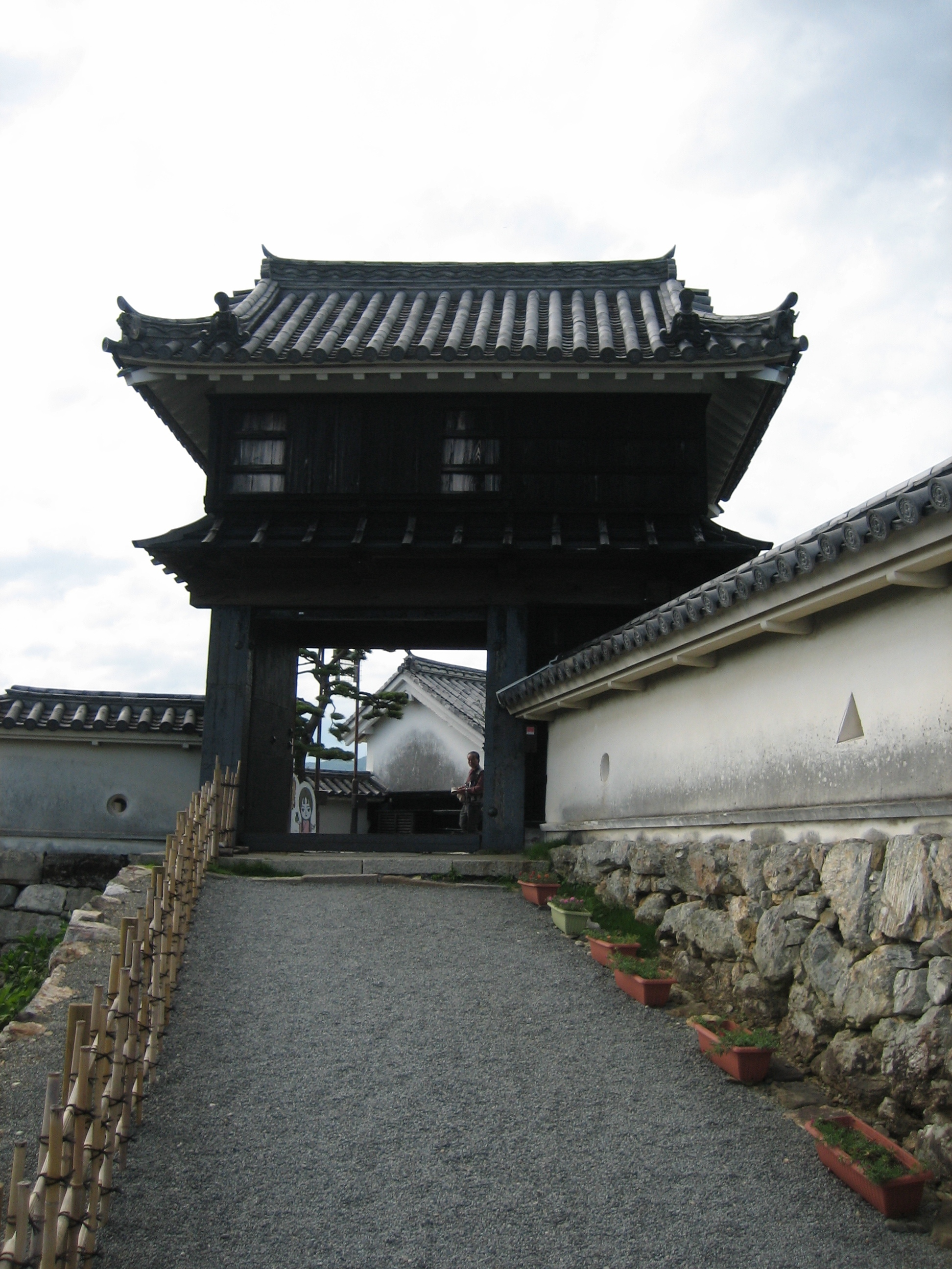 Kurogane gate (Kurogane-mon) of Kōchi Castle (Japan's national important cultural property) Kōchi city, Kōchi Pref., Japan